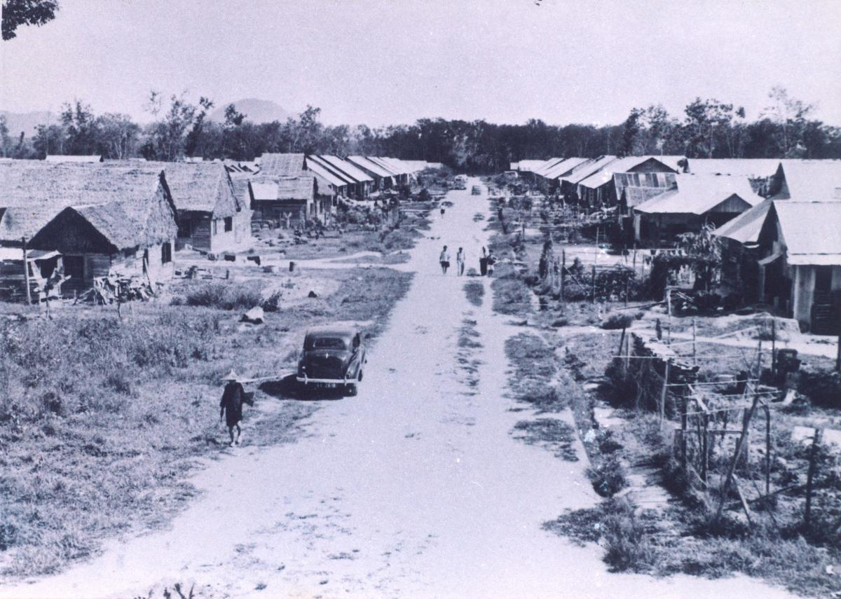 Government-controlled new village established during the Malayan Emergency to segregated ethnic Chinese who have connection with communist insurgents.